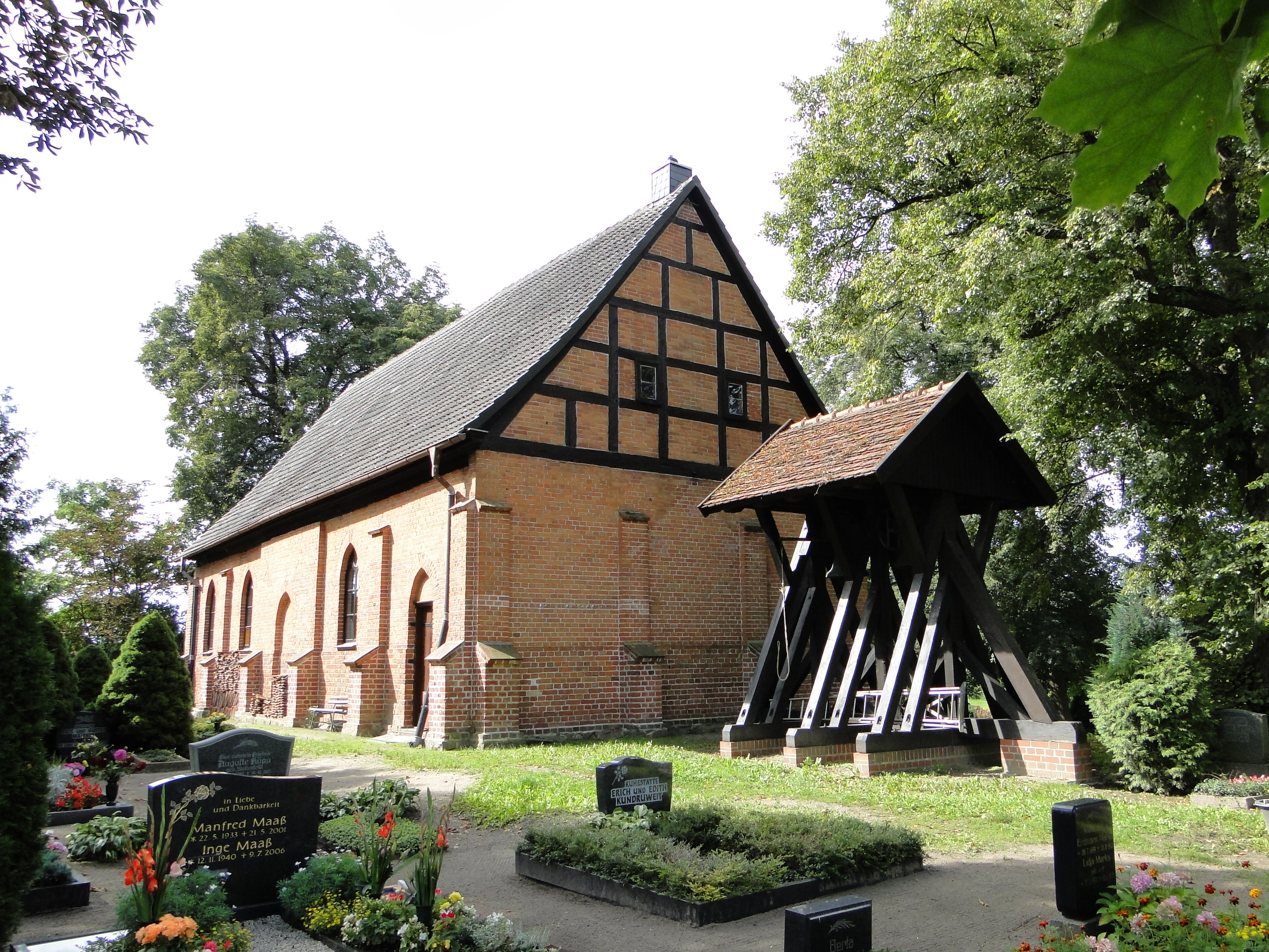 Church in Möllenhagen, district Müritz, Mecklenburg-Vorpommern, Germany